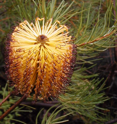 Banksia spinulosa (claret styles), Georges River National Park (near Sydney) June 2005 - Photo Cas Liber